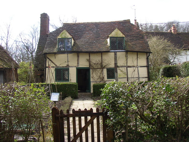 Oakhurst Cottage, Hambledon. At SU964379. The National Trust have several cottages in the village, which are lived in apart from this one. This has been restored to represent a 19C labourer's cottage. Its history is not for certain, but it was probably built as a timber-framed barn in the 16C and became a dwelling in the 17C. A large bread oven, which projects from the back wall, was added in the 18C, and a staircase inserted, leading to two bedrooms.